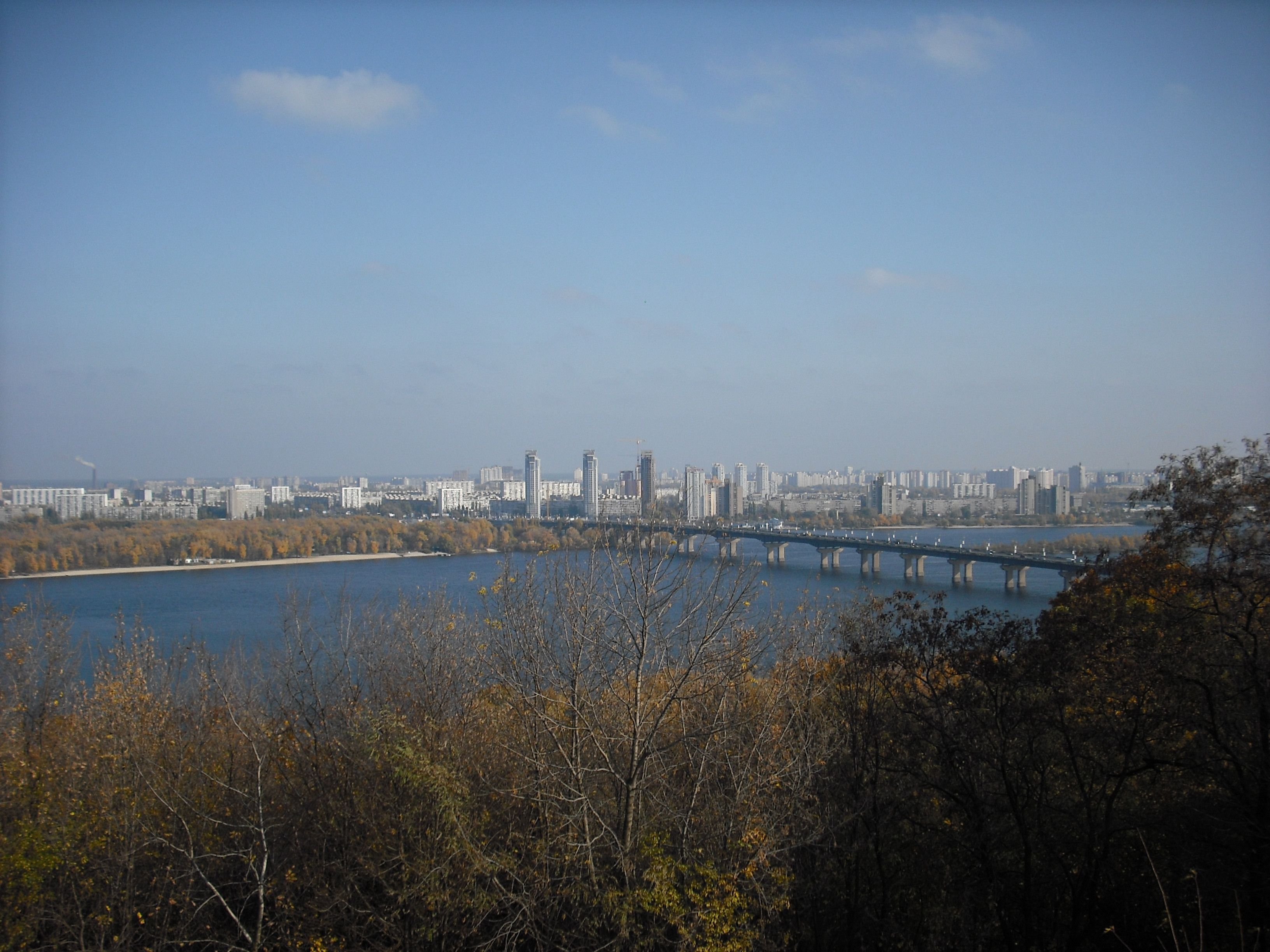 Kiev - Dnjepr Paton's Bridge